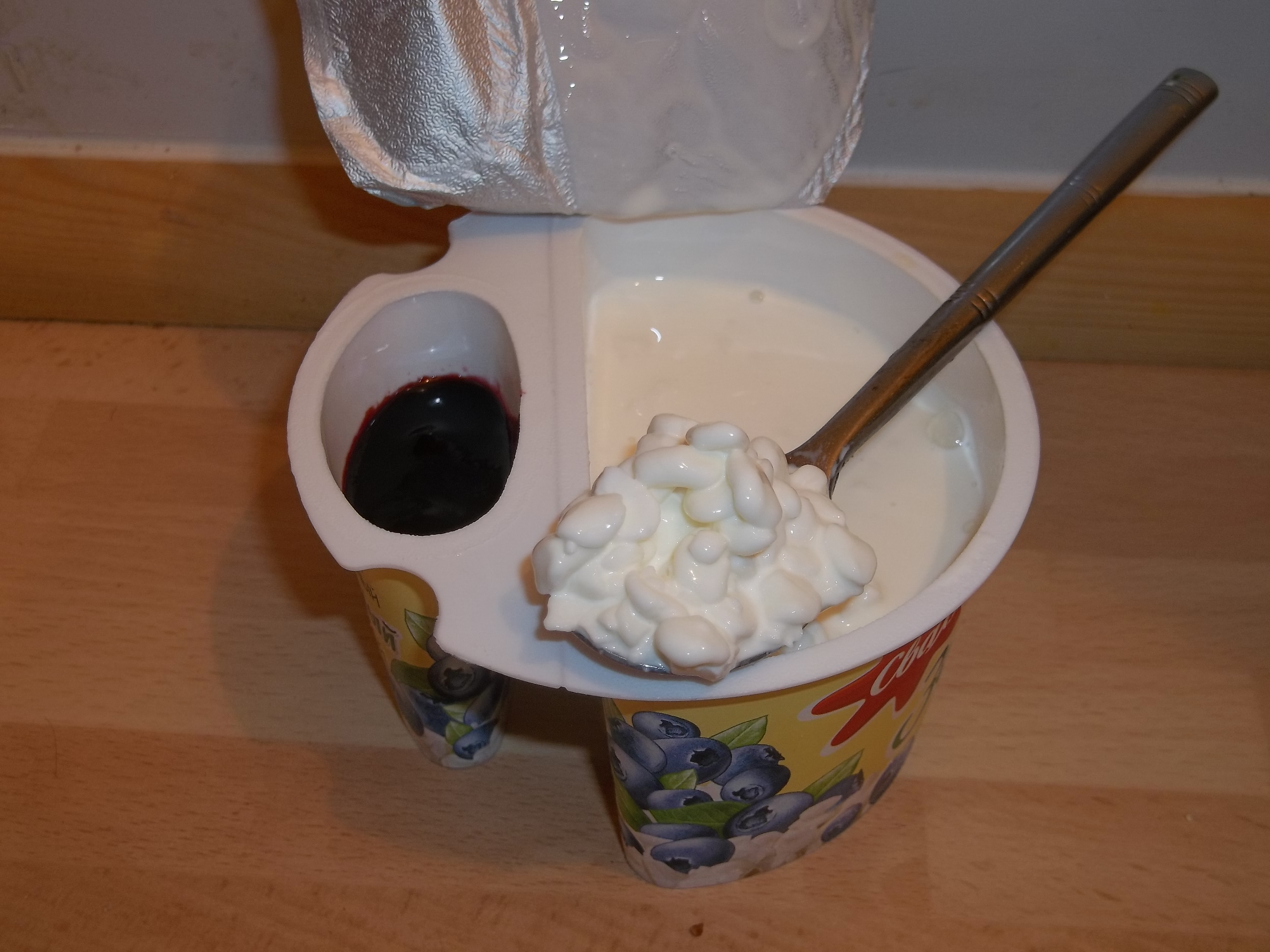 Lithuanian milky curd desert with blueberries jam